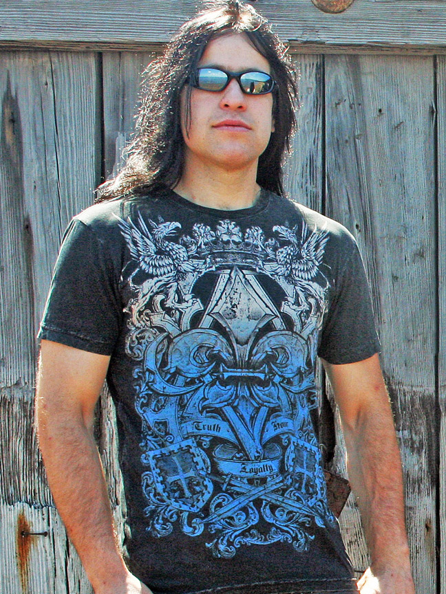 Biography Photo of Dan Prestup